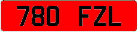 Example of pre-1987 standard rear Irish vehicle registration plate; Dublin